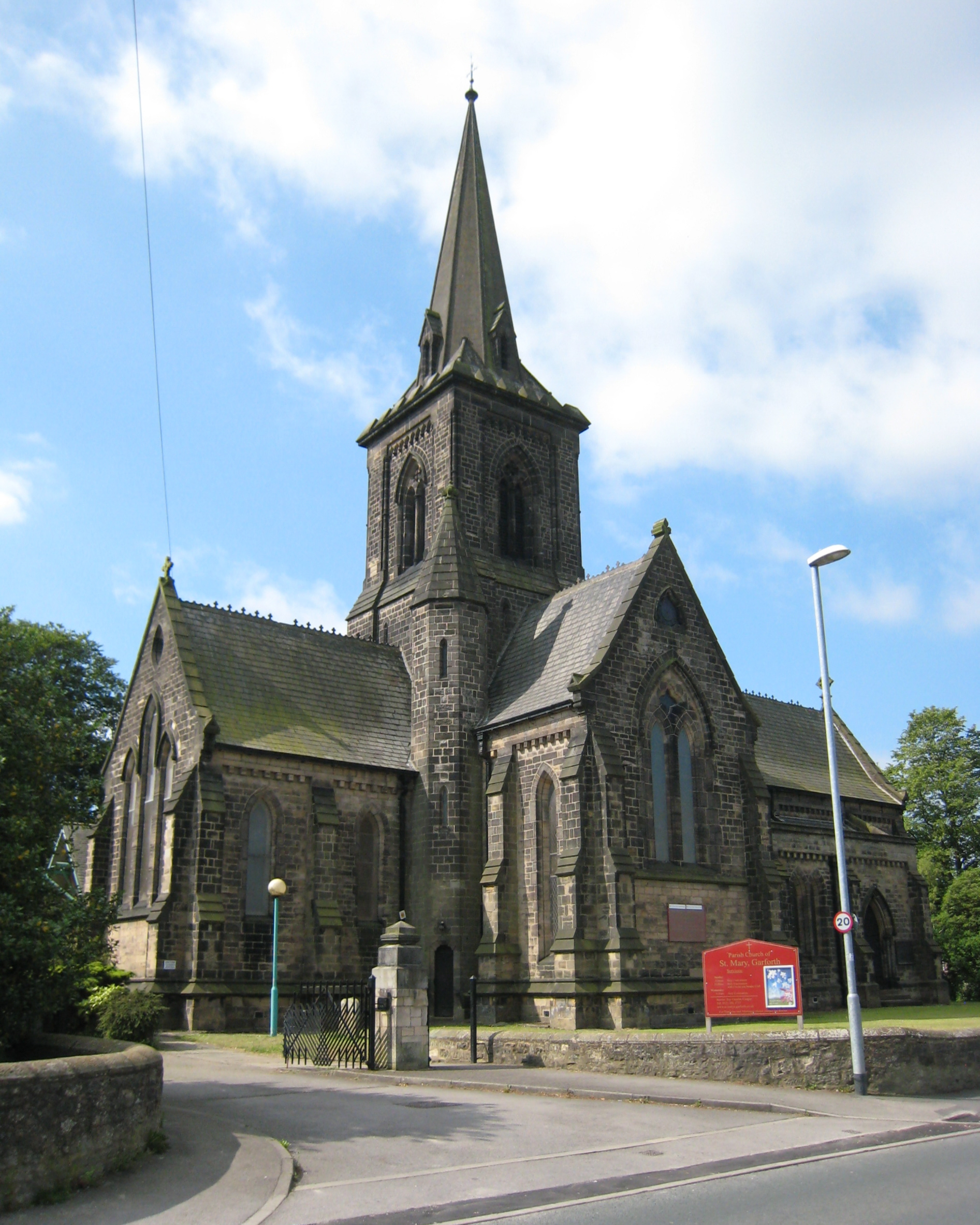 Parish church of St Mary, Church Lane, Garforth.